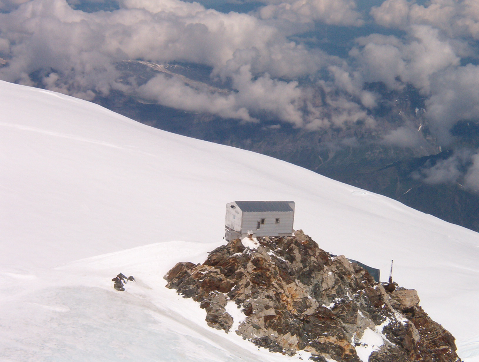 Capanna Vallot, Mont Blanc Massif, France